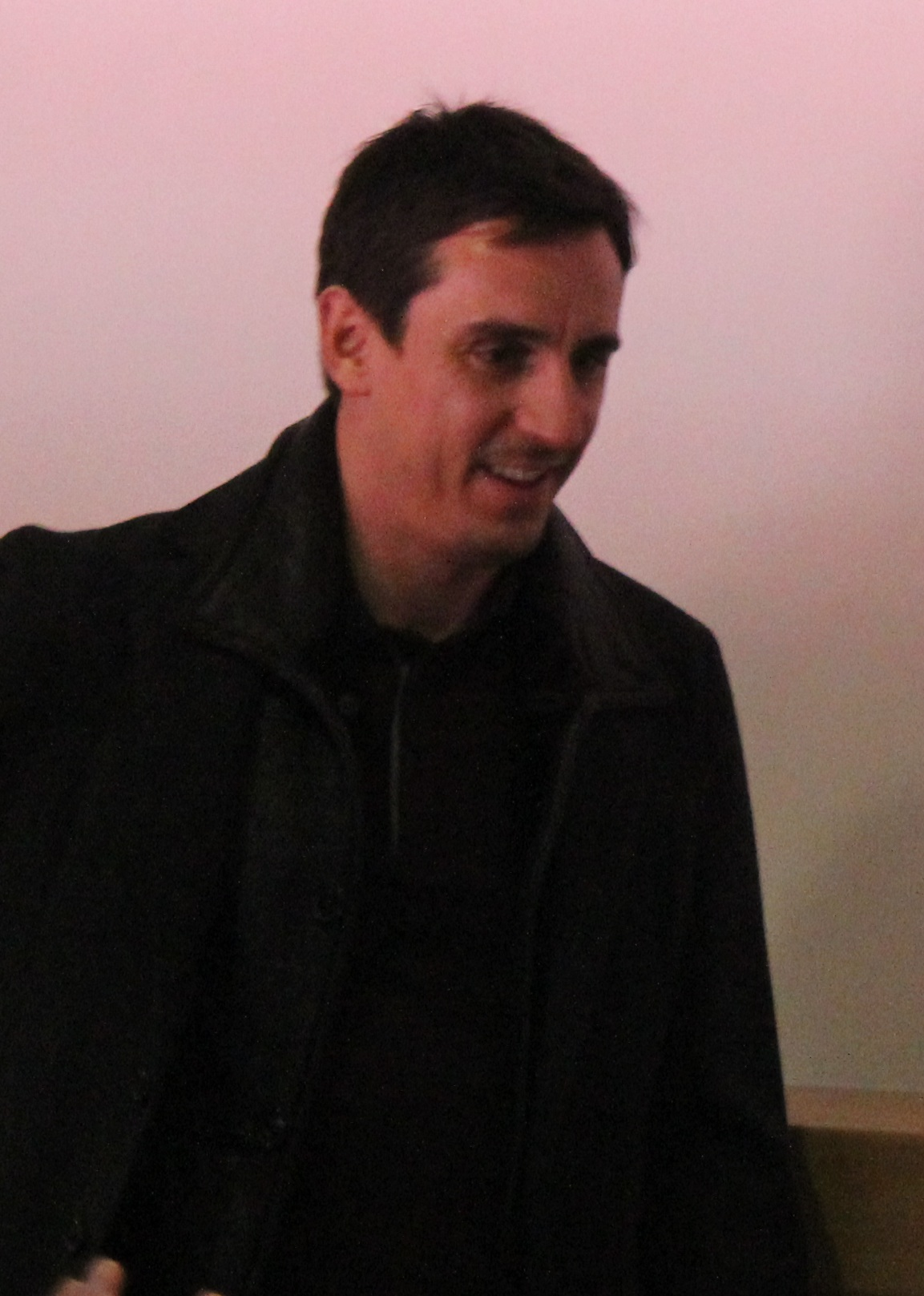 Gary Neville at Old Trafford november 2012 at a conference for the famous 1992 youth team.